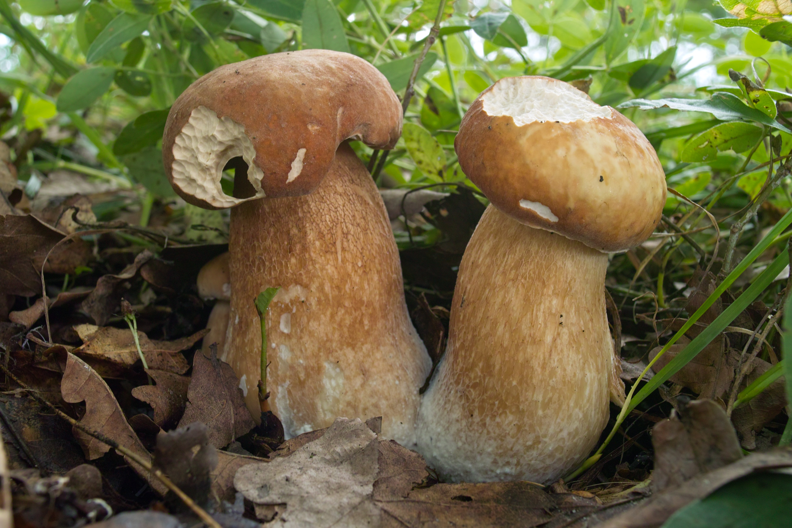 Boletus aestivalis, Vrbenské rybníky, Czech Republic